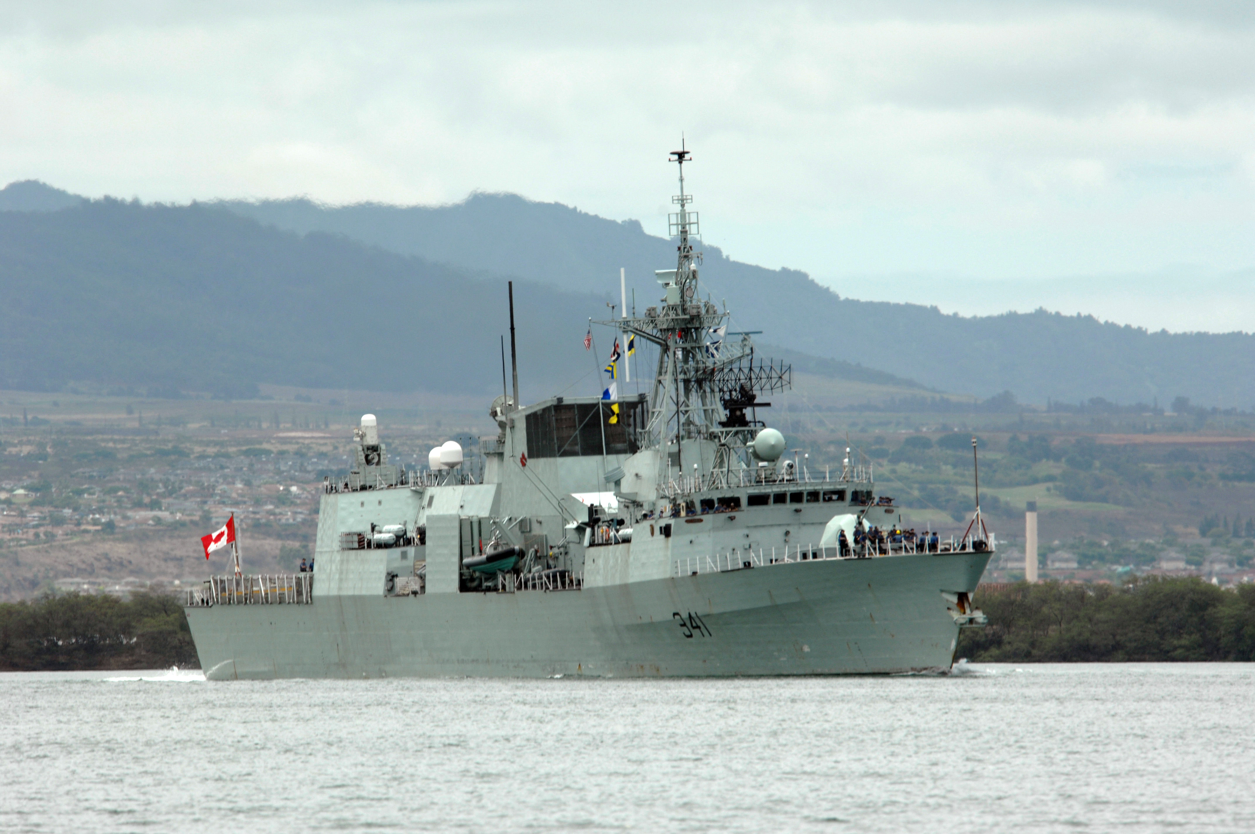 The Royal Canadian Navy frigate HMCS Ottawa (FF 341) arrives at Naval Station Pearl Harbor for the Rim of the Pacific (RIMPAC) 2008 exercise..